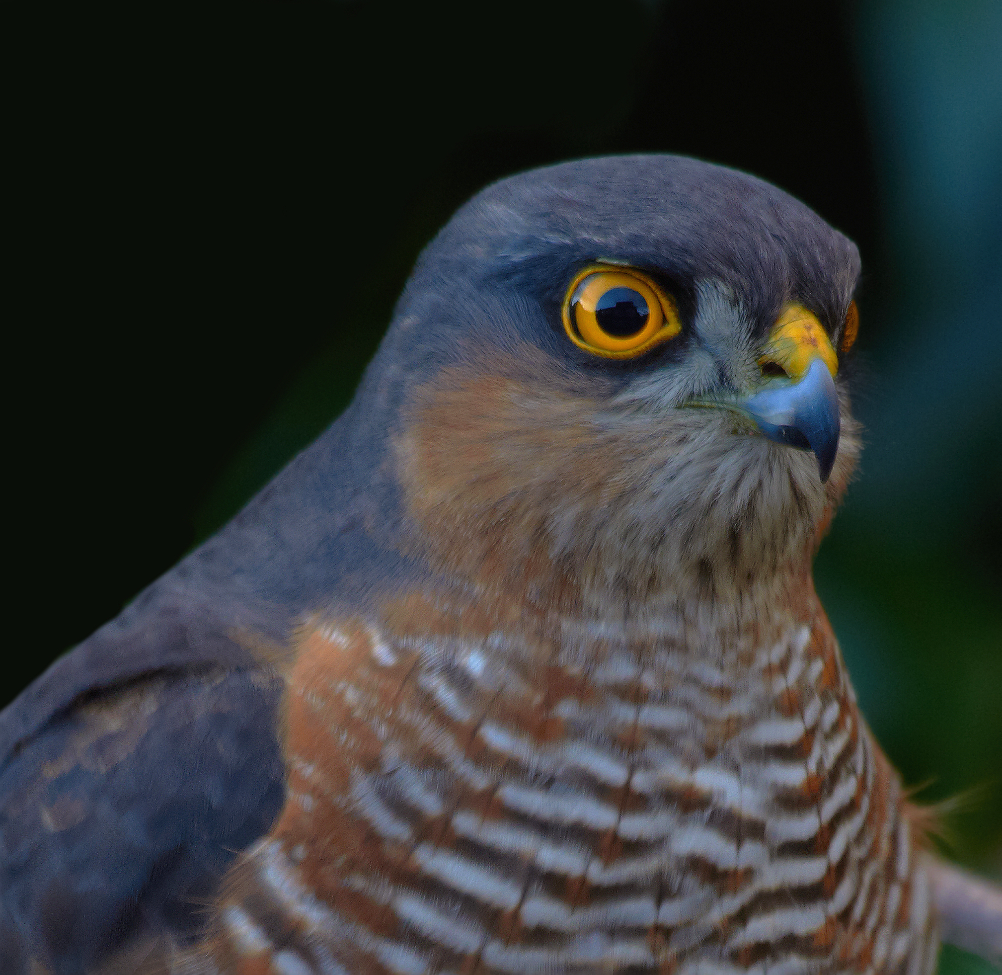 A male Eurasian Sparrowhawk[1], Accipiter nisus, photographed in a small garden in the village of Rozenburg, in the harbor area of Rotterdam, the Netherlands, December 20, 2011